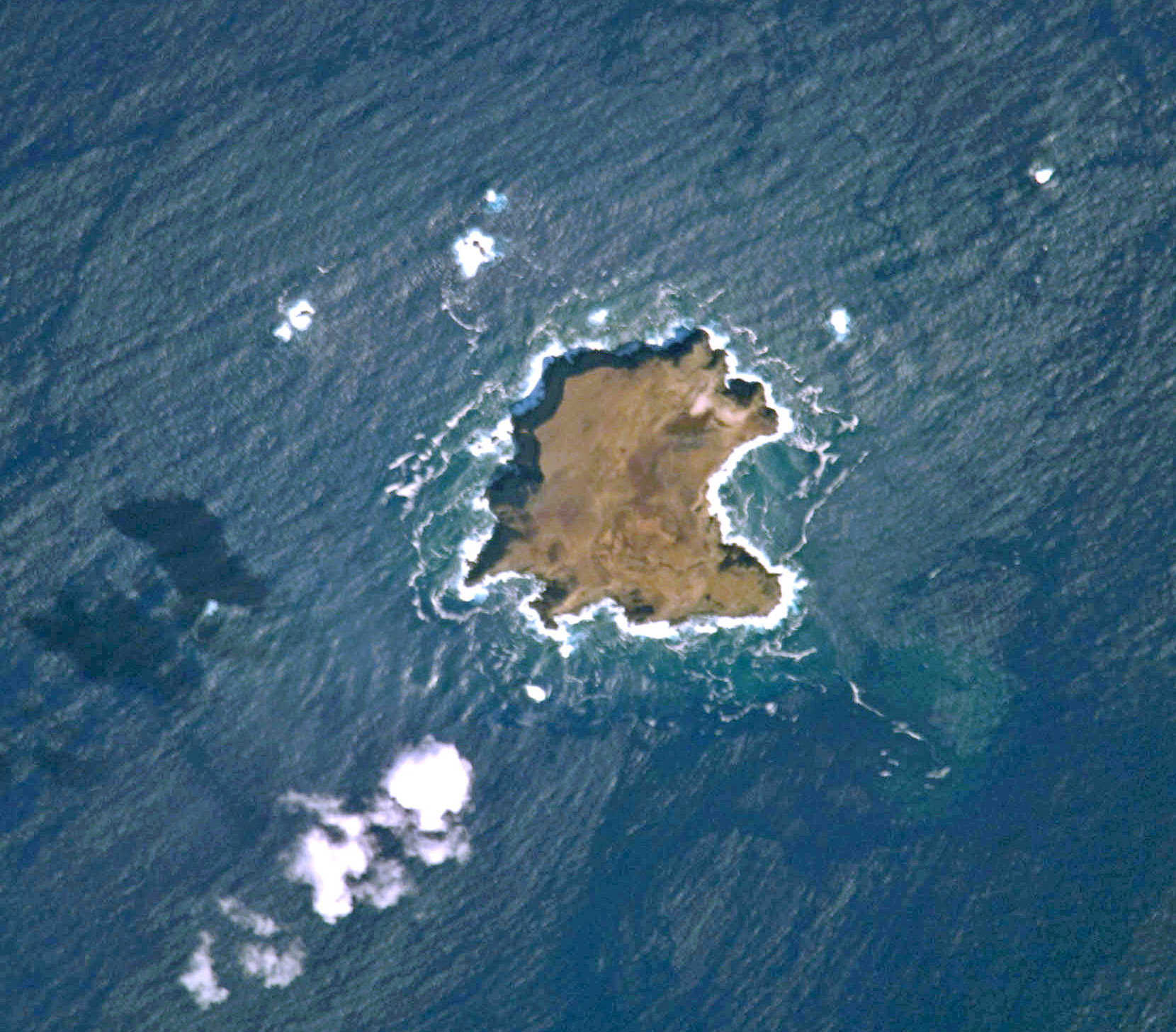 Selvagem Grande, with an approximate area of 4 square kilometres, is the largest of the Savage Islands. The island is ringed by bright white breaking waves along the fringing beaches.